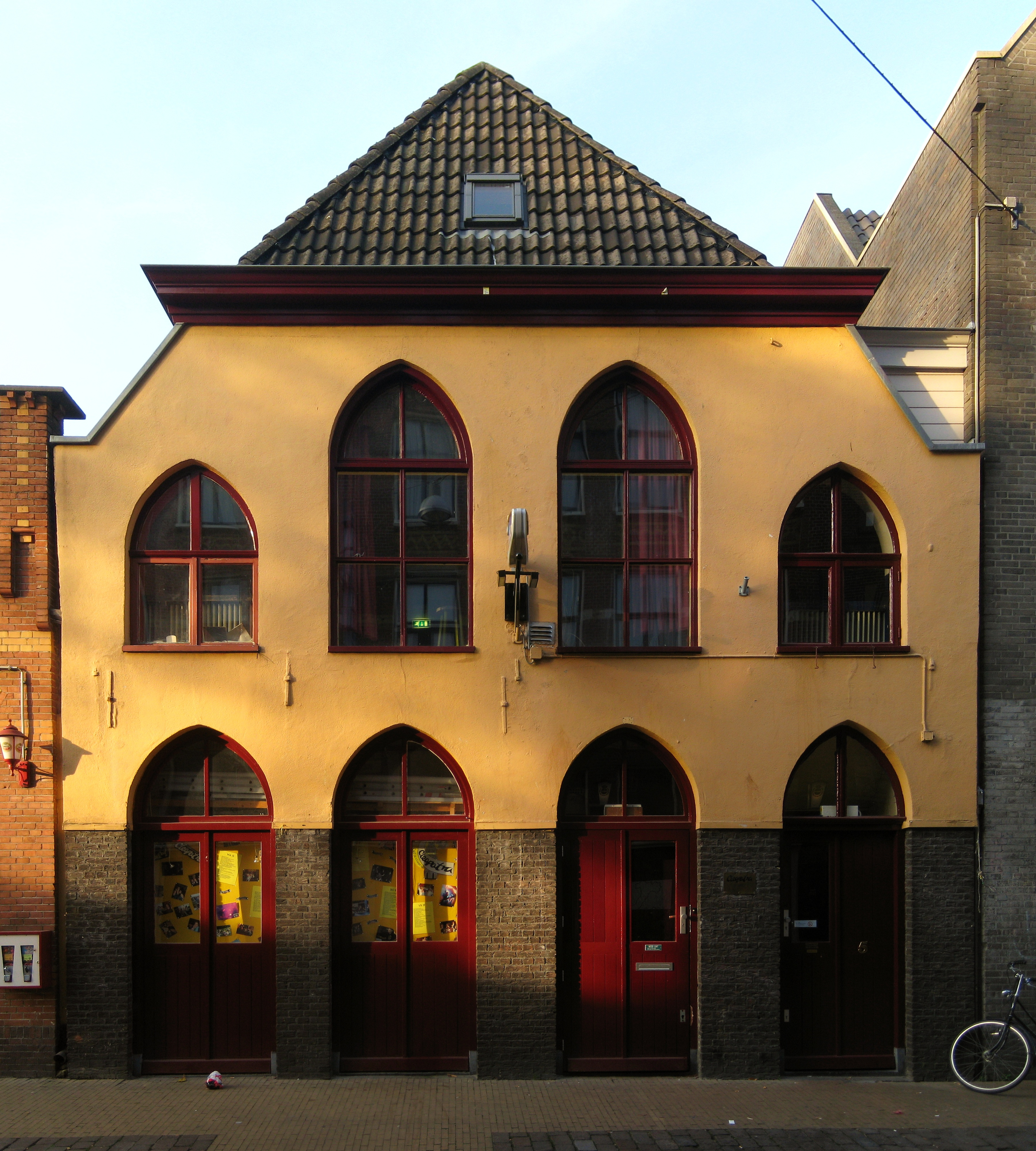 15th century building in the Dutch city of Groningen.